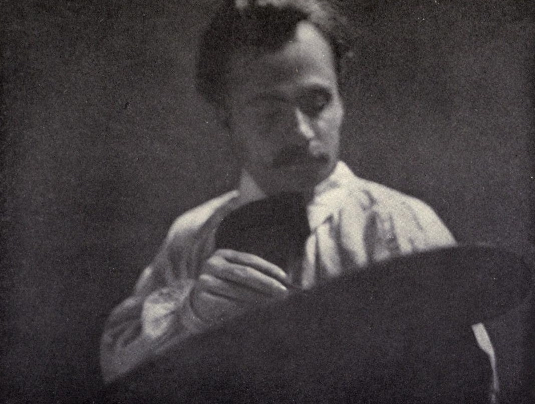 Kahlil Gibran